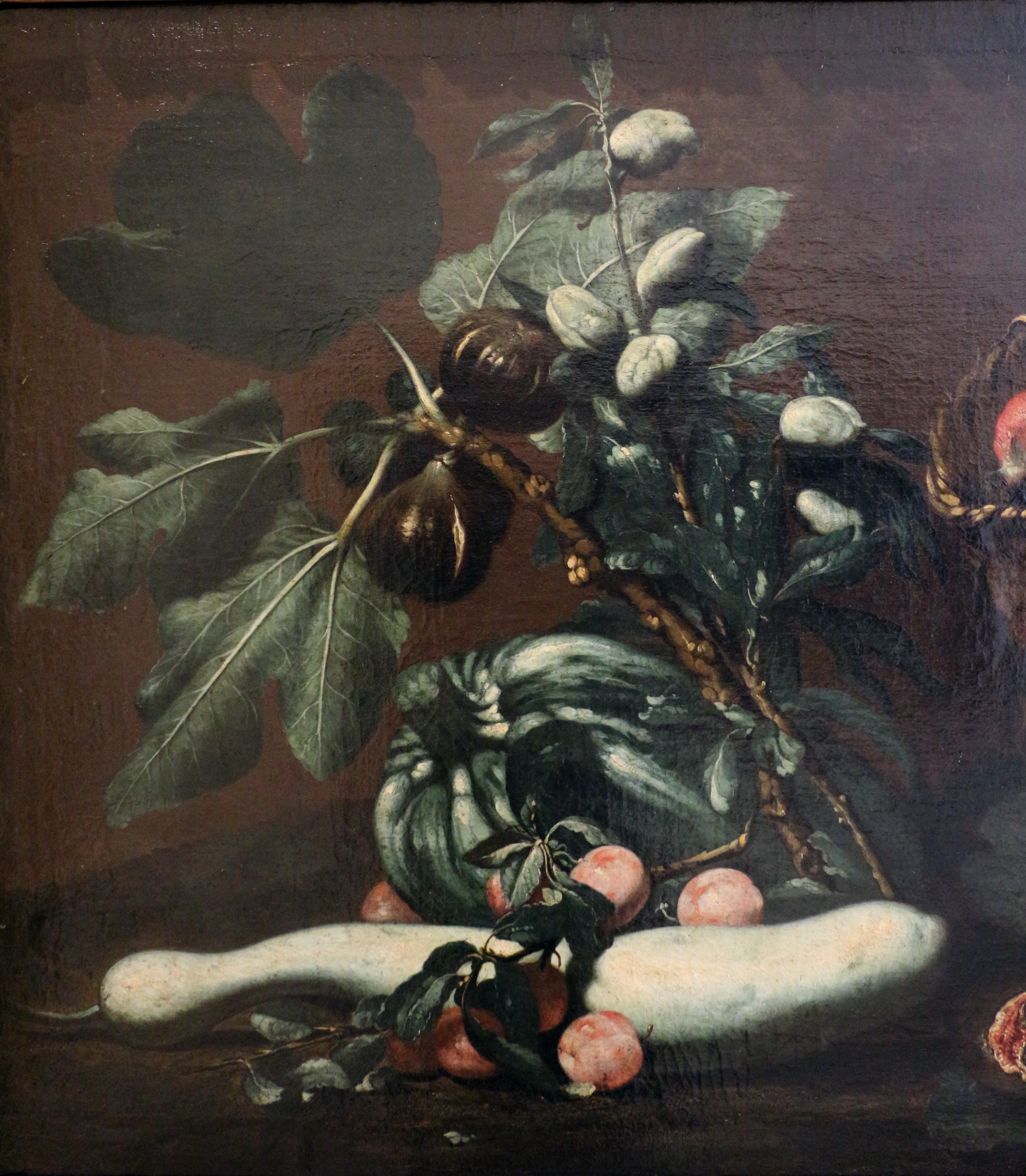 Pinacoteca del Castello Sforzesco